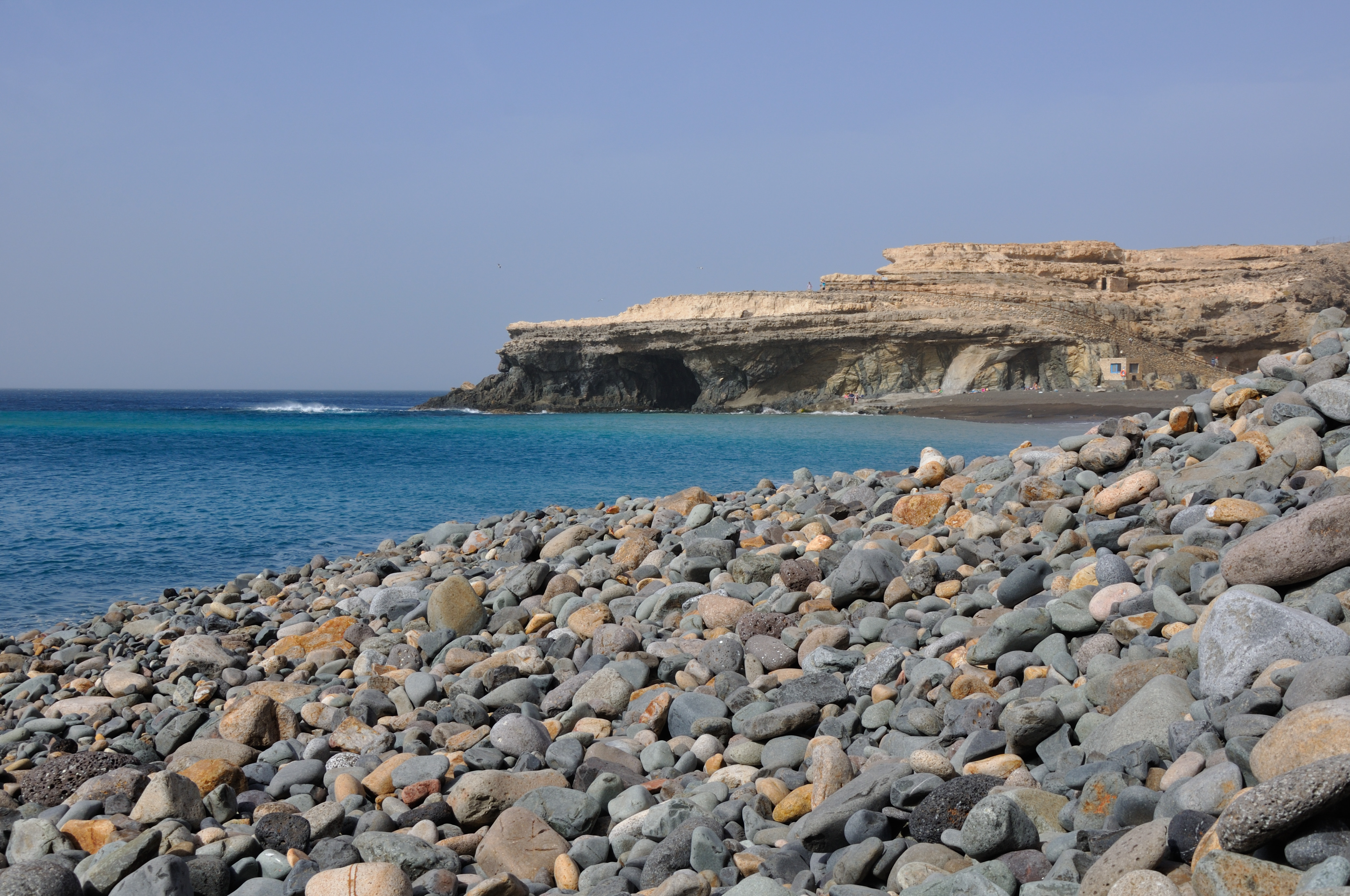 Spain, coast of Fuerteventura near Ajuy